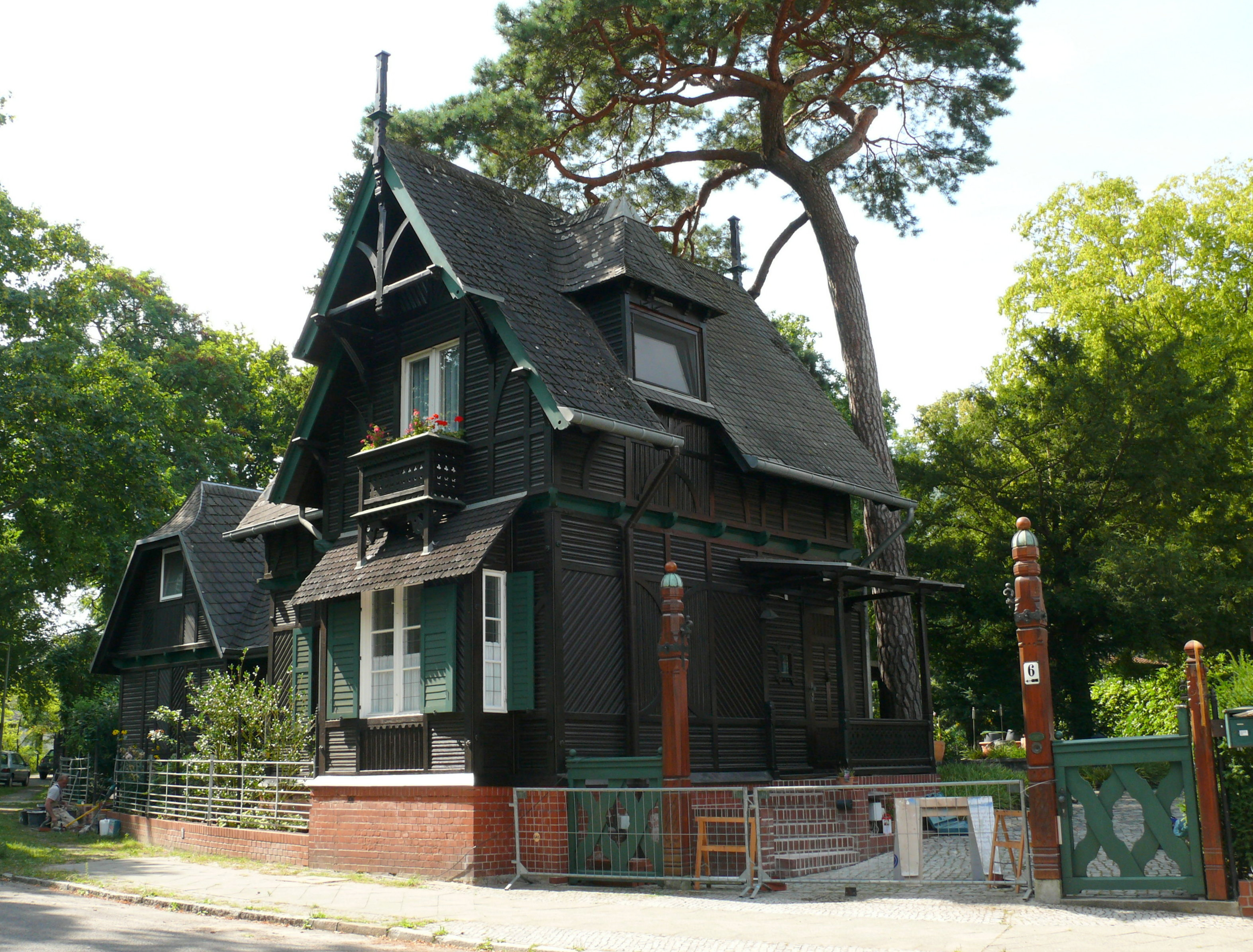 Berlin-Wannsee Bergstraße 6